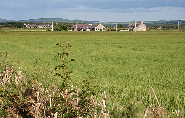 Nether Dallachy from the Speyside Way The nearest building, with the green door, is Spey Bay Hall. The house to its right was until a few years ago contained a post office and general store, now gone the way of so many small shops. These buildings are quite a bit closer than the majority of Nether Dallachy, part of which can be seen to the left of the hall.